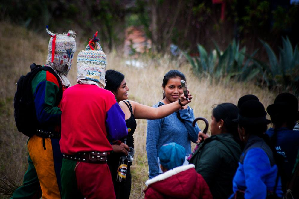 Saraguro girl taking a selfie with the Wikis during a Kapak Raymi celebration on December 2017. Photo taken by V. S.